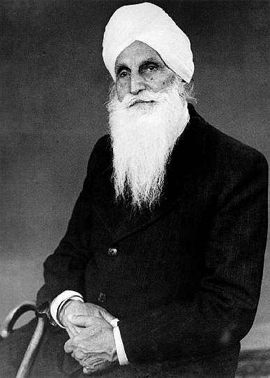 Baba Sawan Singh Ji Maharaj.